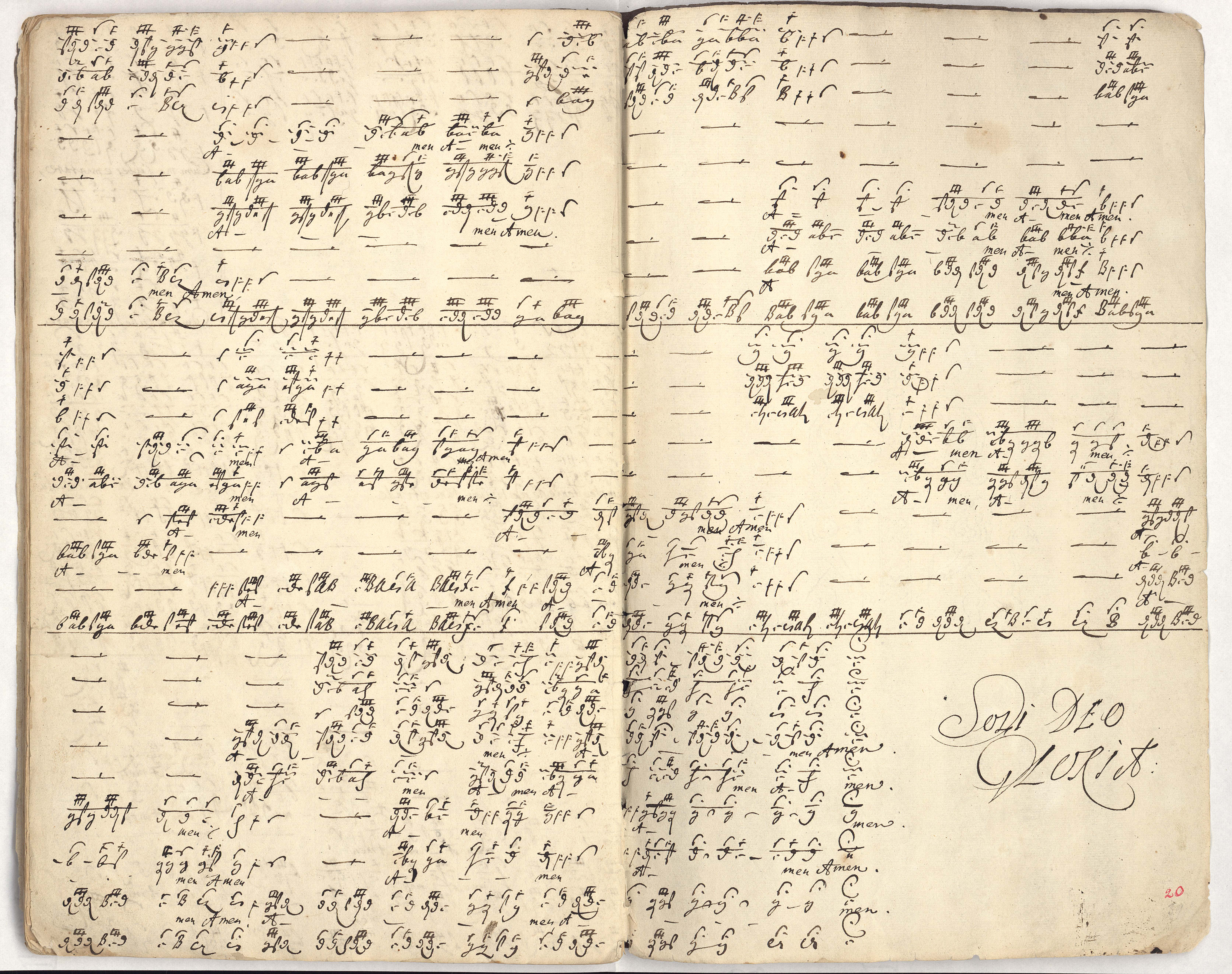 Closing page of original manuscript of Membra Jesu Nostri, with the amen from the 7th cantata. Ad faciem